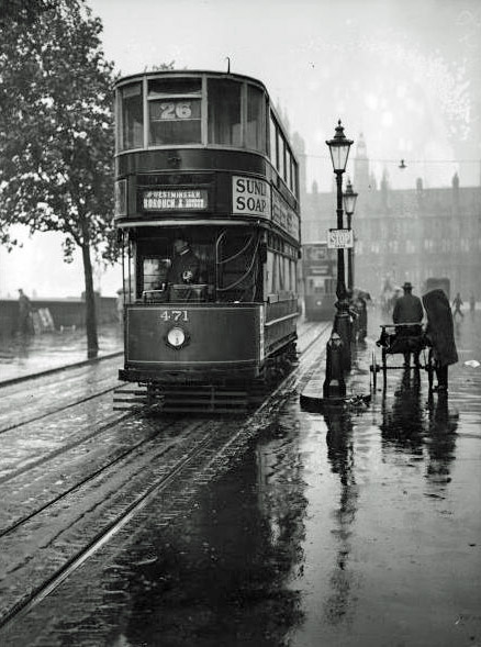 Victoria Embankment on a very wet day in 1931. The No.26 tram is making its way to Blackfriars Bridge and then Southwark Street near London Bridge. It had started its journey at Kew Bridge then along Chiswick High Road, Hammersmith Broadway then over Putney Bridge, Wandsworth High Street, Clapham Junction, Wandsworth Road, Vauxhall Station, Albert Embankment and Westminster Bridge. This route crossed the Thames three times on its way from Kew to London Bridge. Interesting to see the pedestrian refuge acting as a tram stop for the north bound trams.